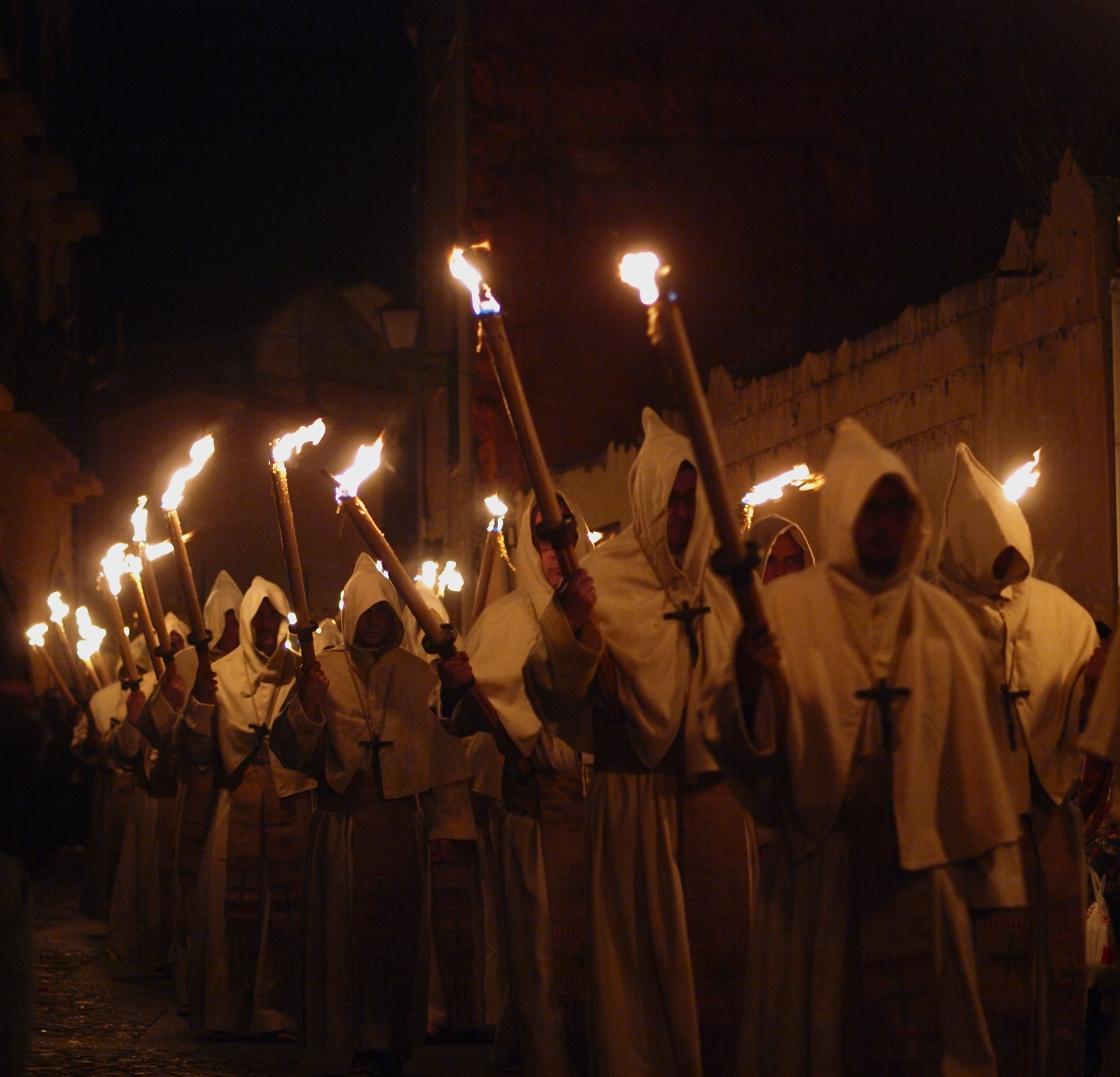 Santisimo Cristo de la Buena Muerte (Christ of the Good Death) fraternity procesion; Holy Week in Zamora (Spain, 2012)